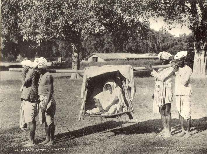 "Dhoolie Bearers, Benares," photographed by Cambridge and Company, Bombay (1890s)* Source: ebay, Dec. 2002